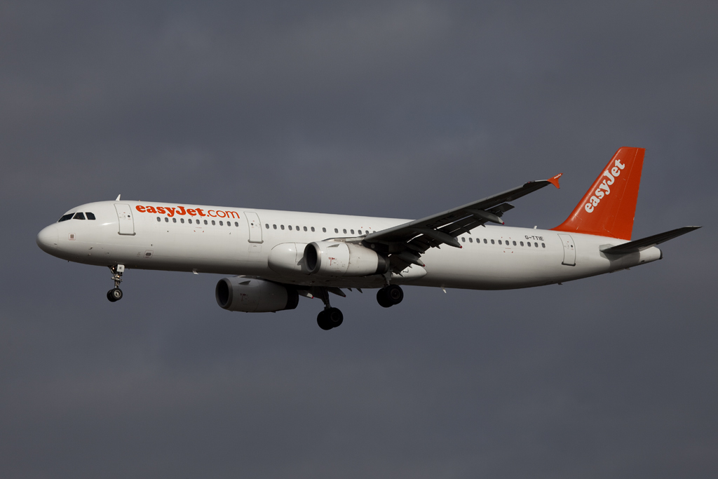 G-TTIE A321 Easyjet